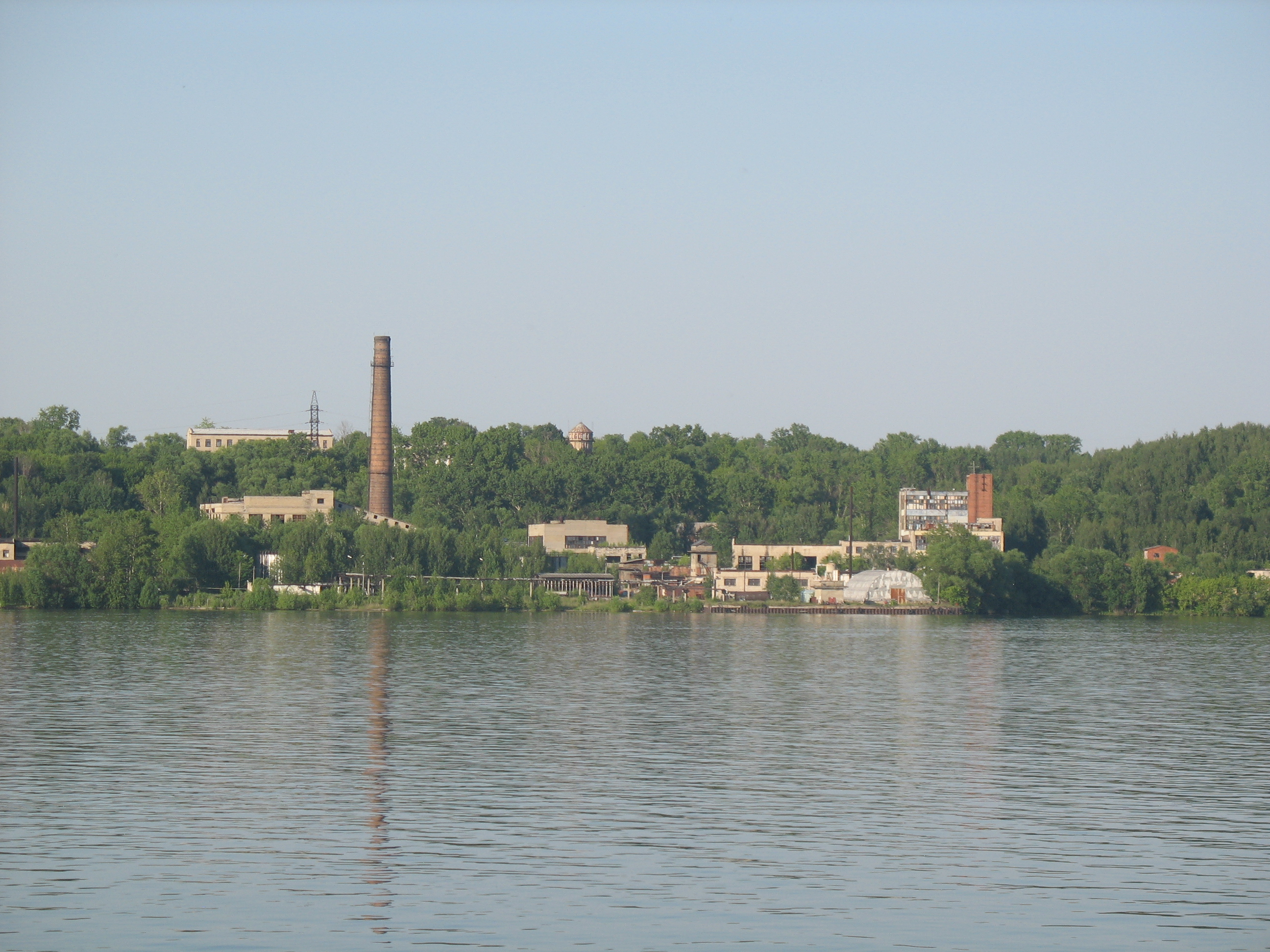 House of Burnaev-Kurochkin